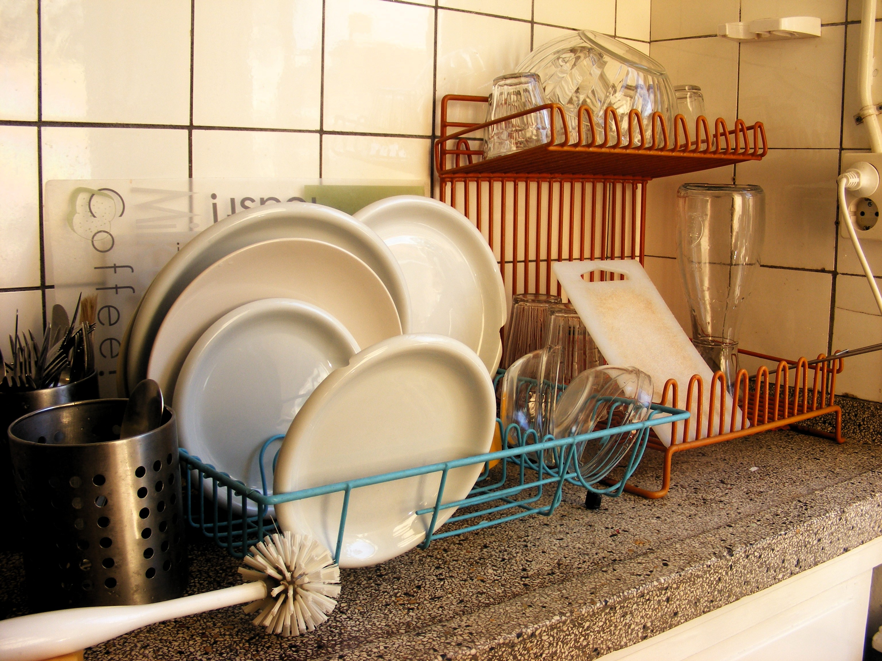 Dishes in a kitchen in the Netherlands.